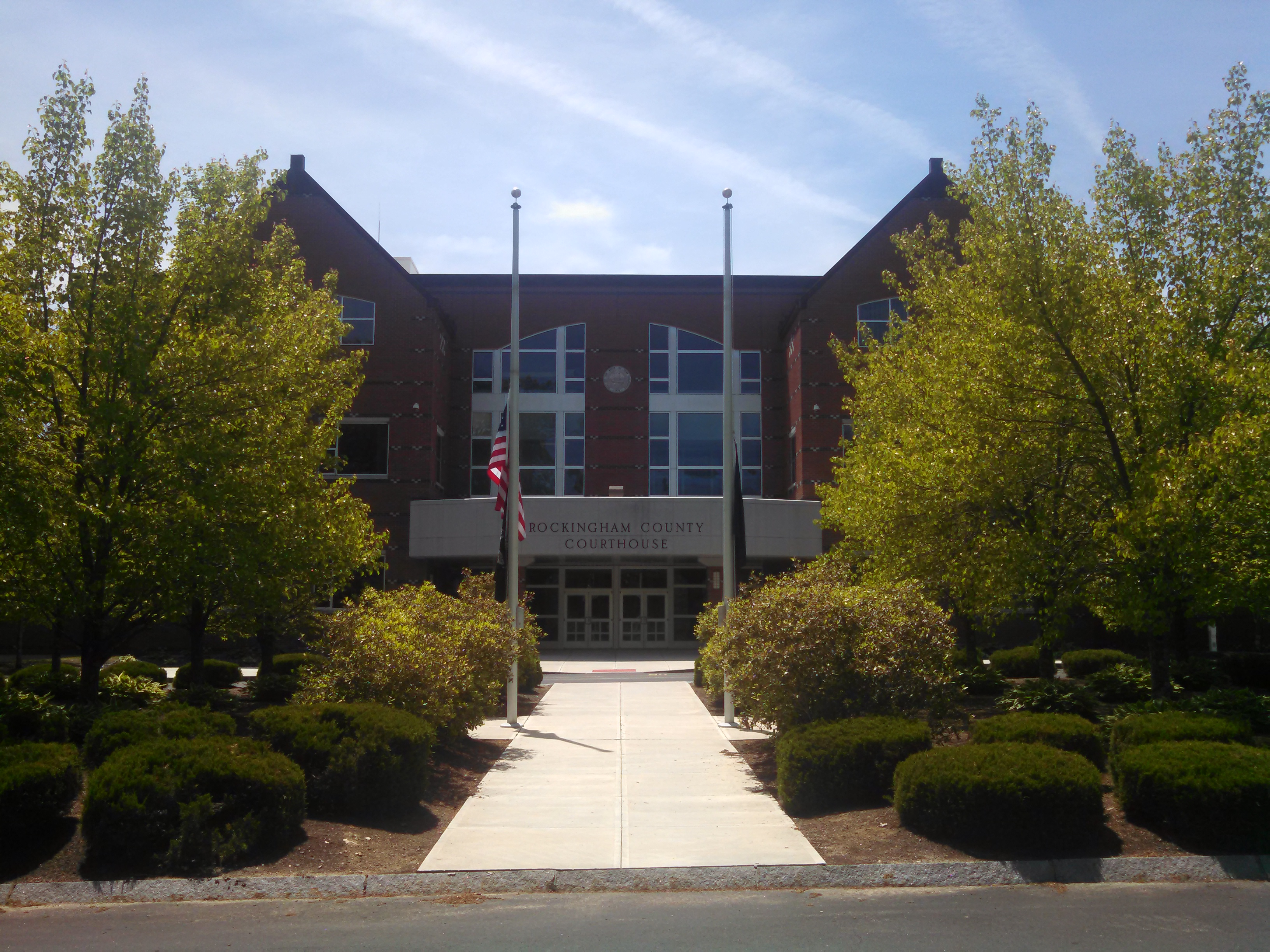 Rockingham County Courthouse, Brentwood New Hampshire